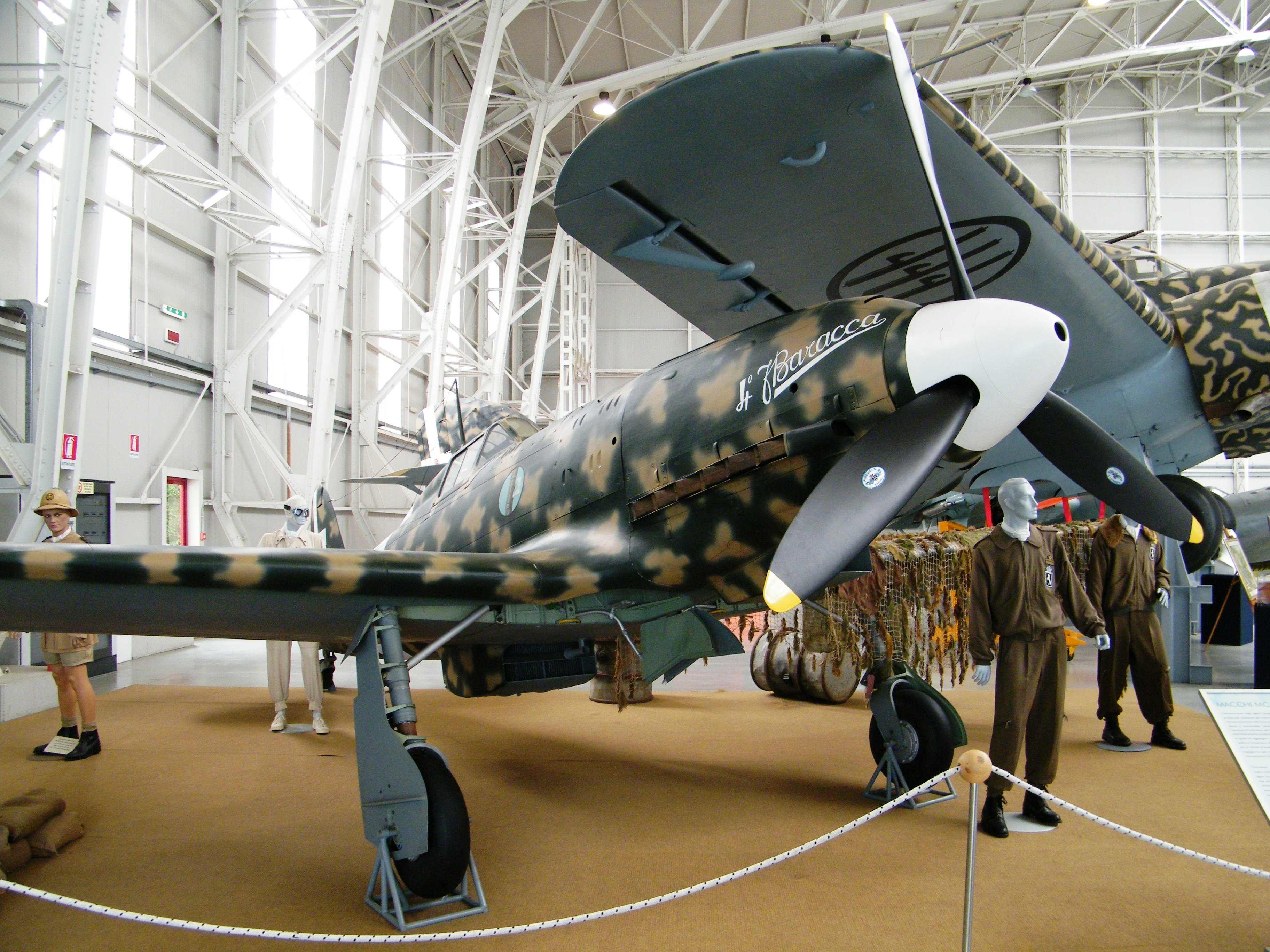 Macchi C.202 at the Italian Air Force Museum, Vigna di Valle in 2012. Background: Savoia-Marchetti SM.79